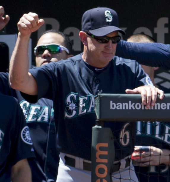 Seattle Mariners dugout during a 2013 game at Oriole Park at Camden Yards in Baltimore